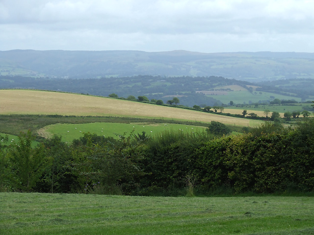 Ceredigion farmland south of Penuwch Looking across the Aeron and Teifi valleys towards the Elenydd hills.